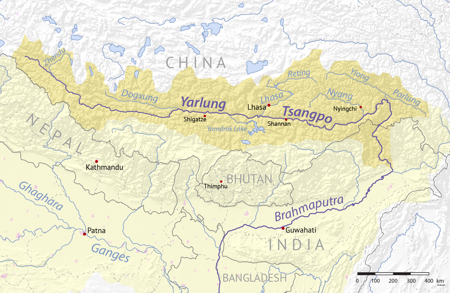 Map of the Yarlung Tsangpo River watershed which drains the north slope of the Himalayas. The Yarlung Tsangpo is sometimes considered the upper section of the Brahmaputra River in northeastern India, which flows to the Bay of Bengal and the Indian Ocean.